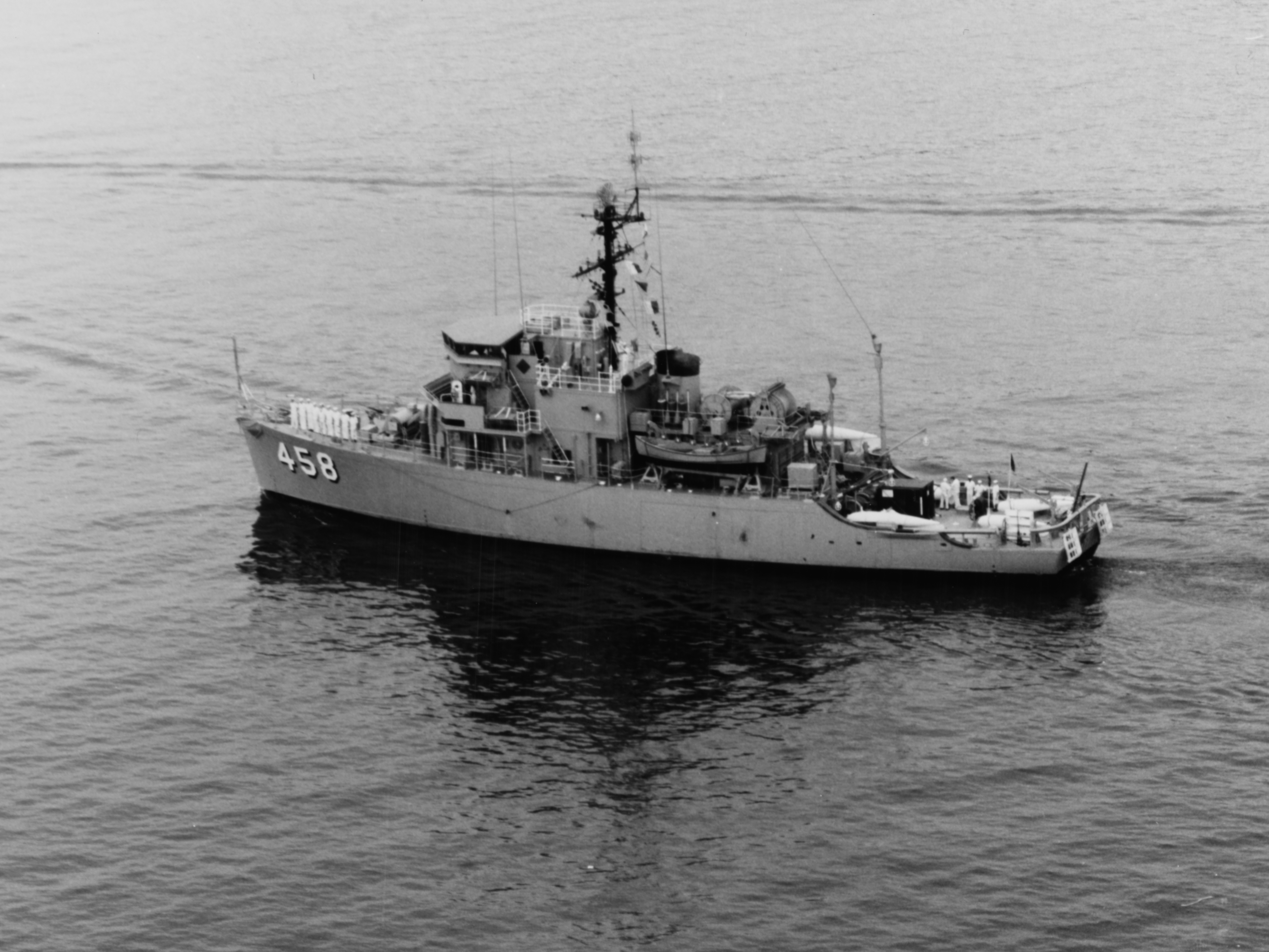 The U.S. Navy ocean minesweeper USS Lucid (MSO-458) underway in the Pacific Ocean, February 1970.